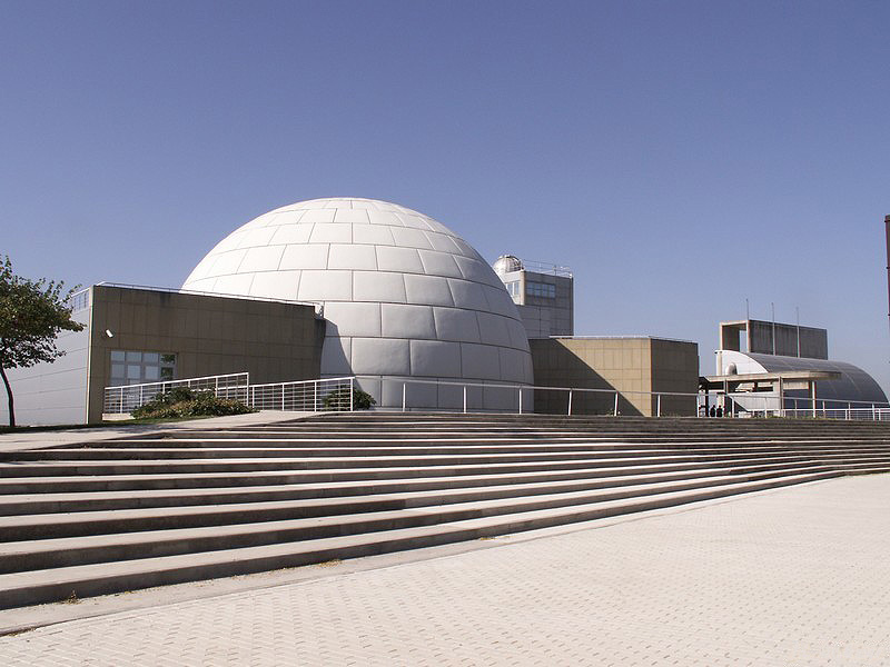 Madrid Planetarium (Spain). Inaugurated on September 29, 1986.